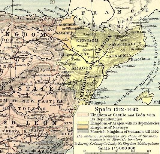 Map of Kigndom of Navarra, after 1250. From Historical Atlas by William Shepard (New York: Henry Holt and Company, 1911).